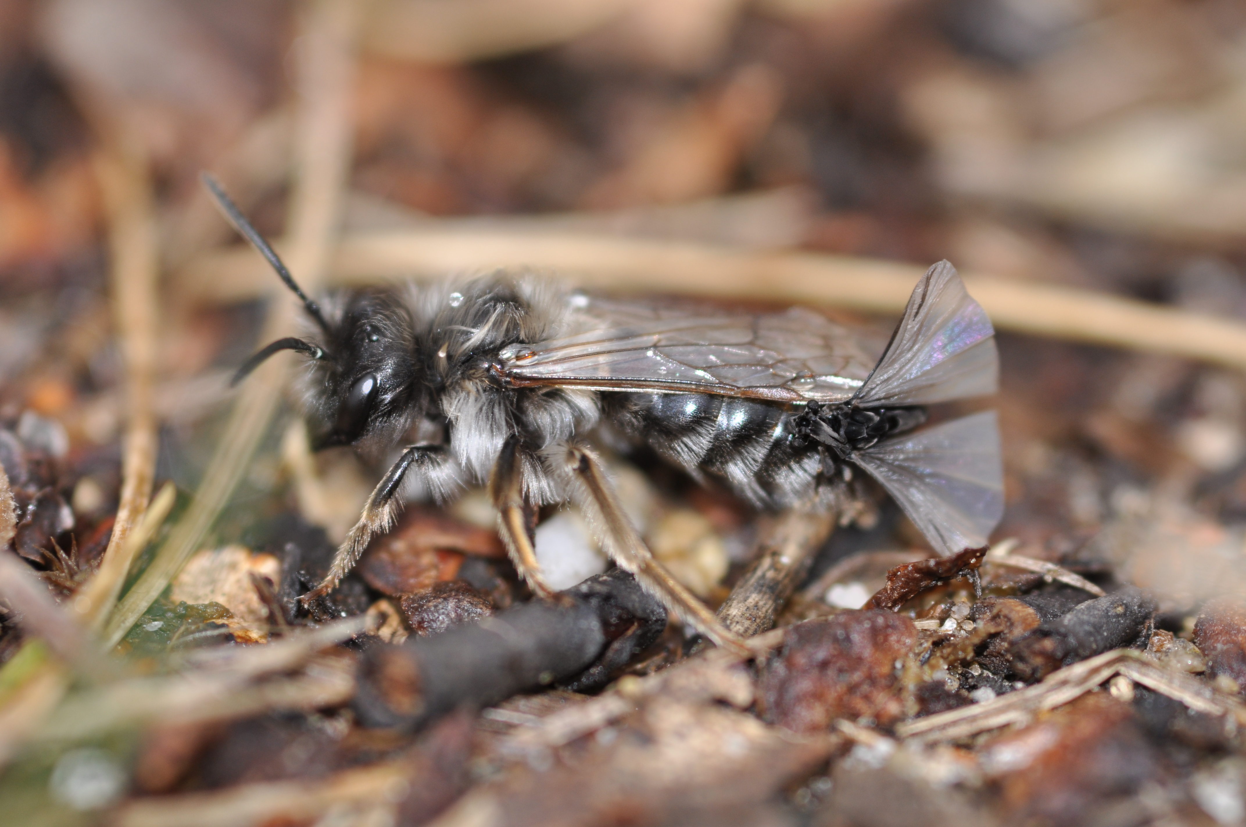 Andrena vaga male with Stylops melittae mating in Bahrenfeld, Hamburg.